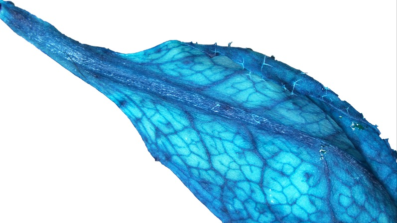 Staining using the GUS-system in Arabidopsis Thaliana